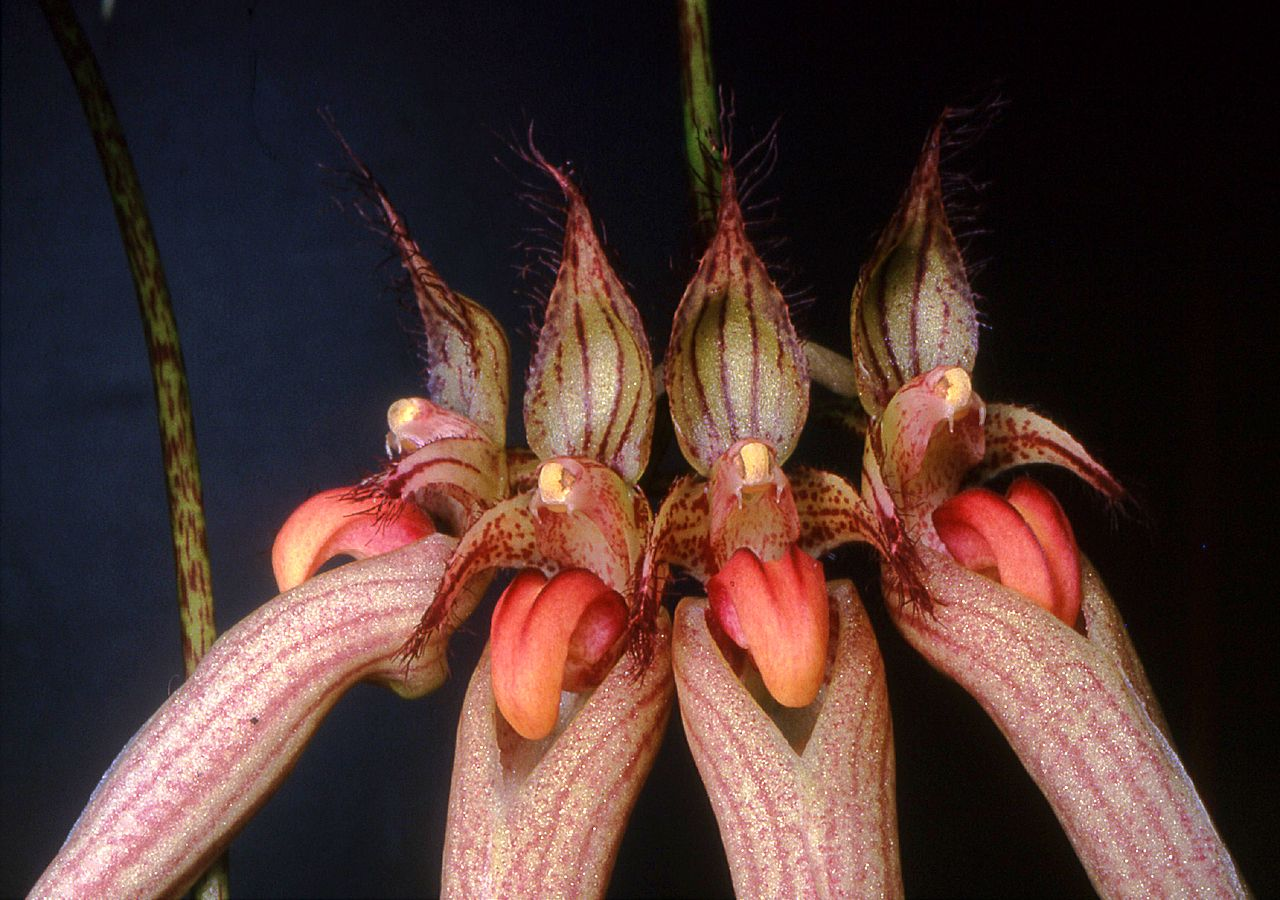 Bulbophyllum ornatissimum